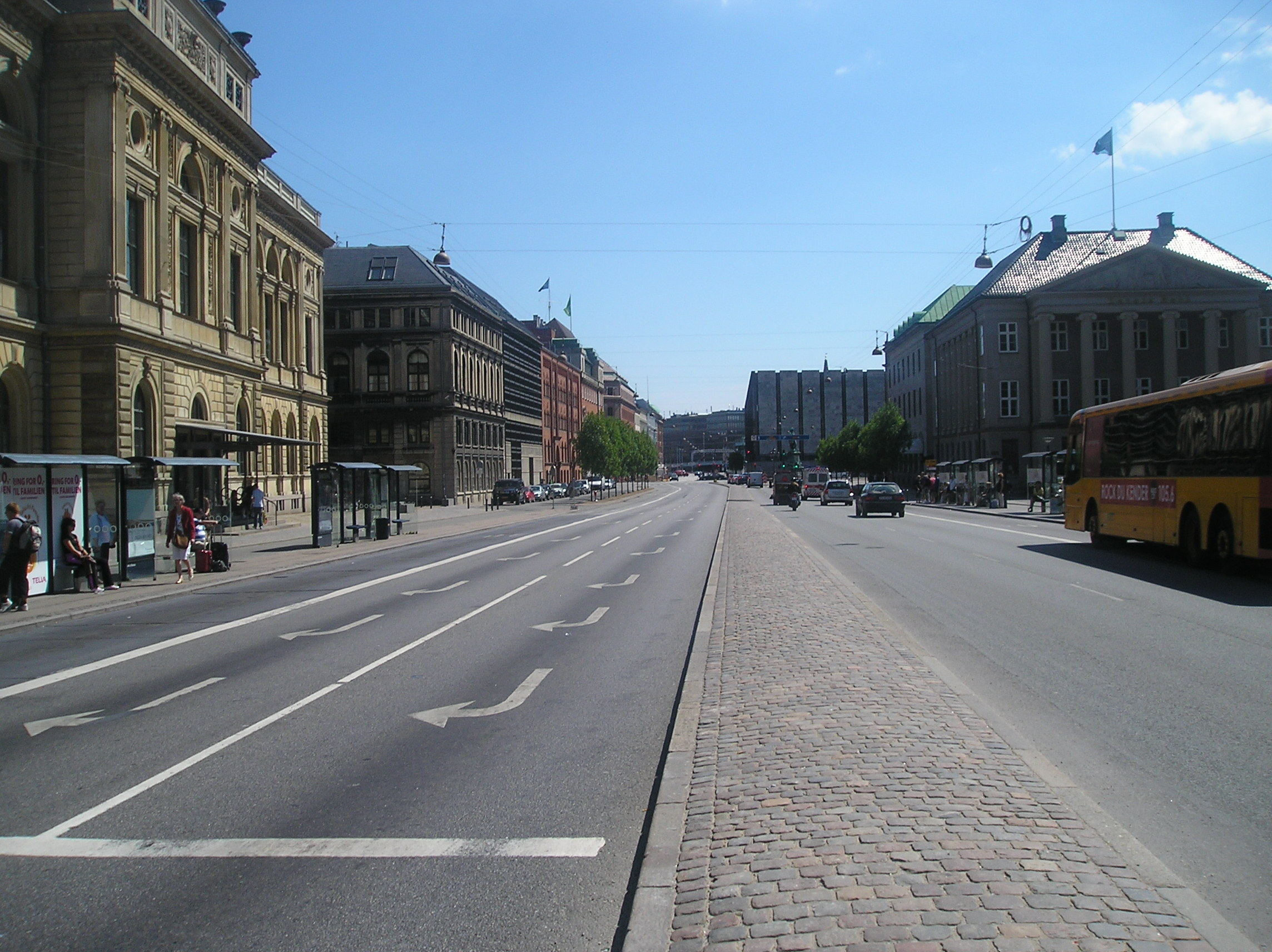 Copenhagen street Holmens Kanal seen from Kongens Nytorv. The building at the left is The royal theatre while the grey building in the middle is the danish national bank.